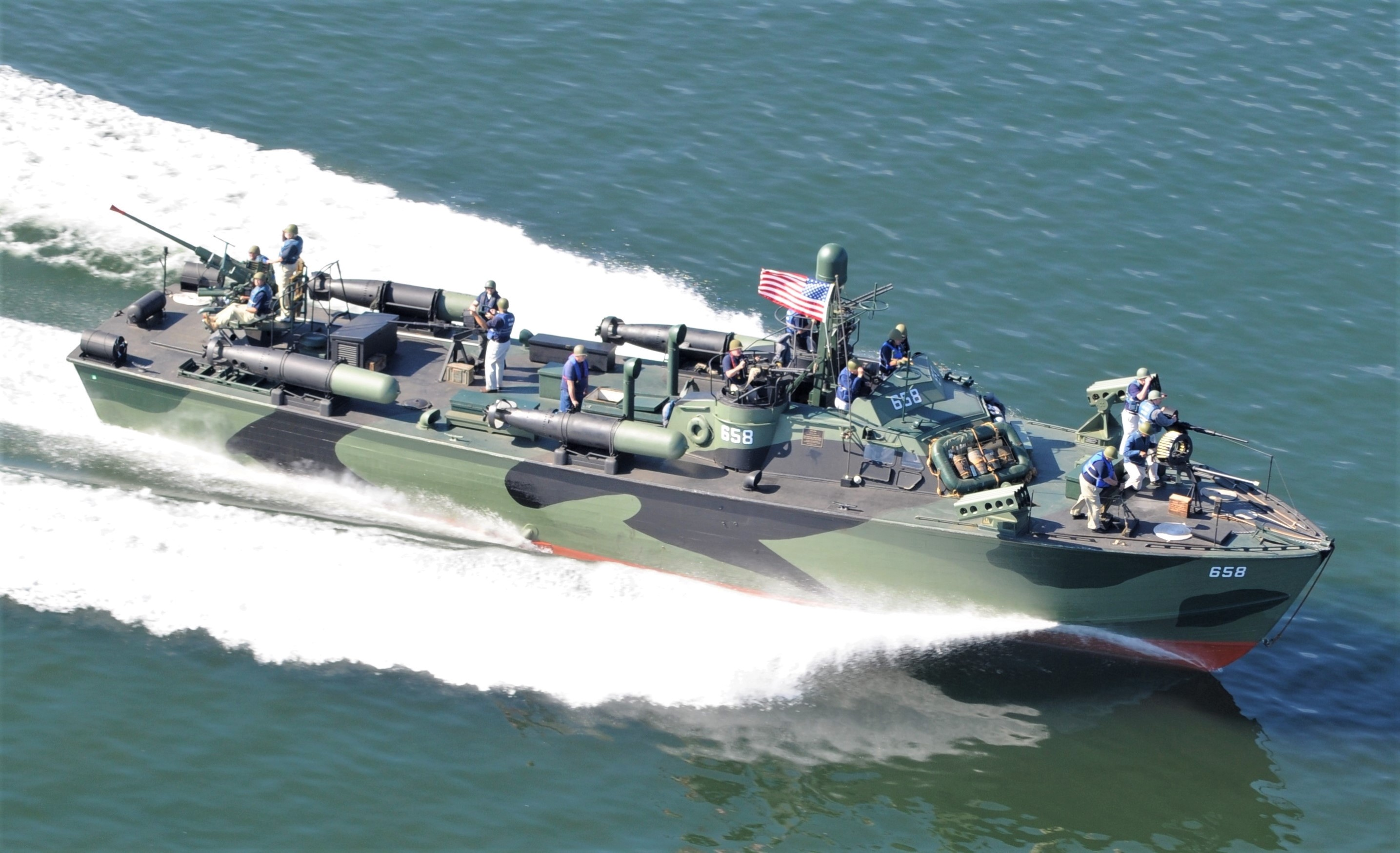 Aerial photo taken of PT658 with all battle stations manned. Boat in Columbia River near St Helens OR on Oct 9th 2014